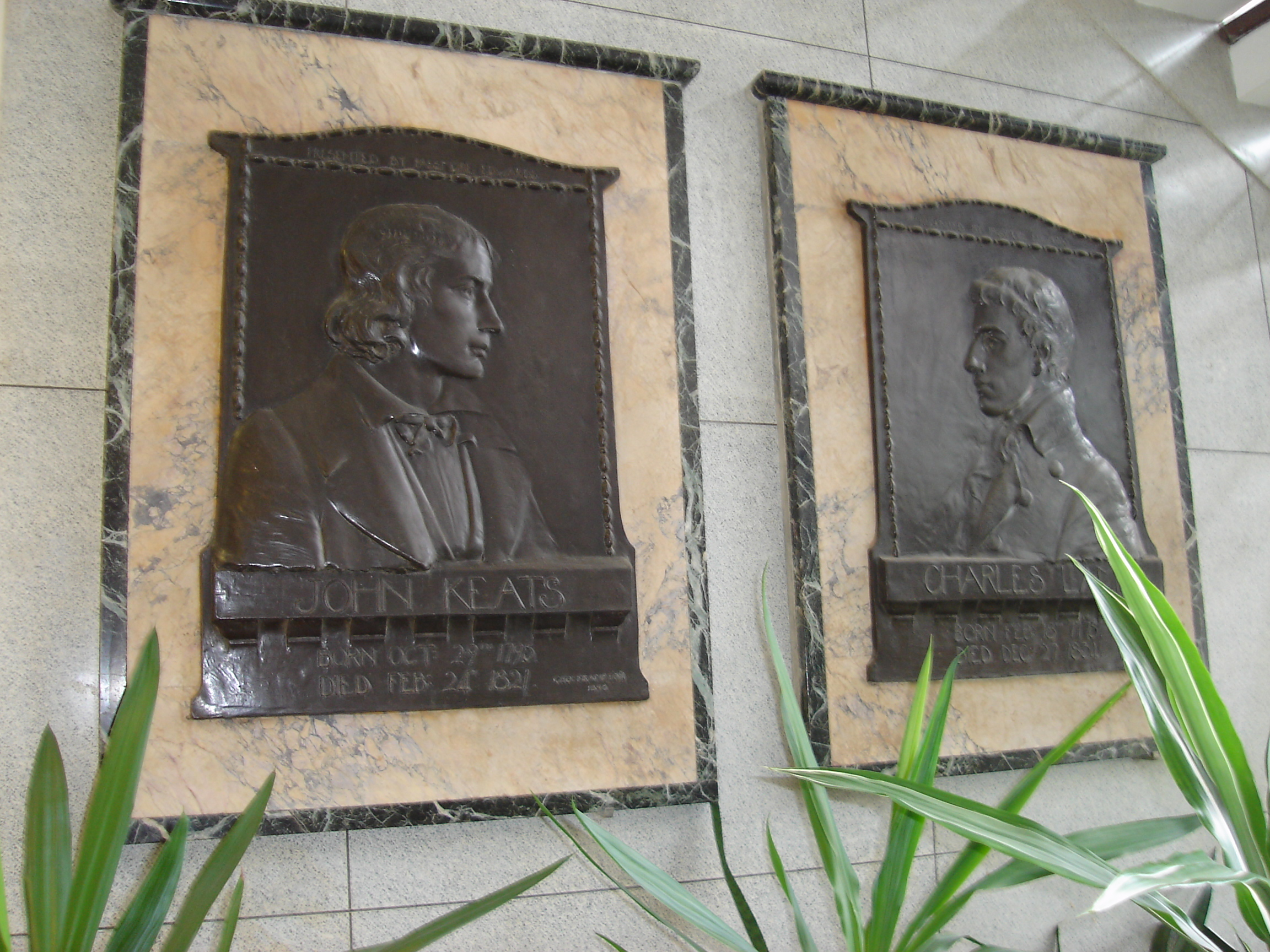 Picture of bronze wall plaques depicting Charles Lamb and John Keats sculpted by George Frampton which are on public display at the Community House, 313 Fore Street, Edmonton N9 0PZ The plaques were housed at the former Passmore Edwards library in Fore Street, Edmonton